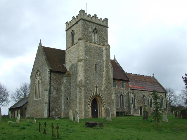 Church of St Mary in Barham, Suffolk, England. A Grade I listed medieval church.